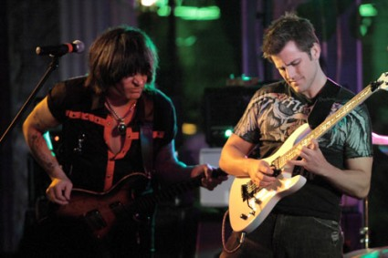 Michael Angelo Batio and Bill Peck at Dean Owners of America 2008